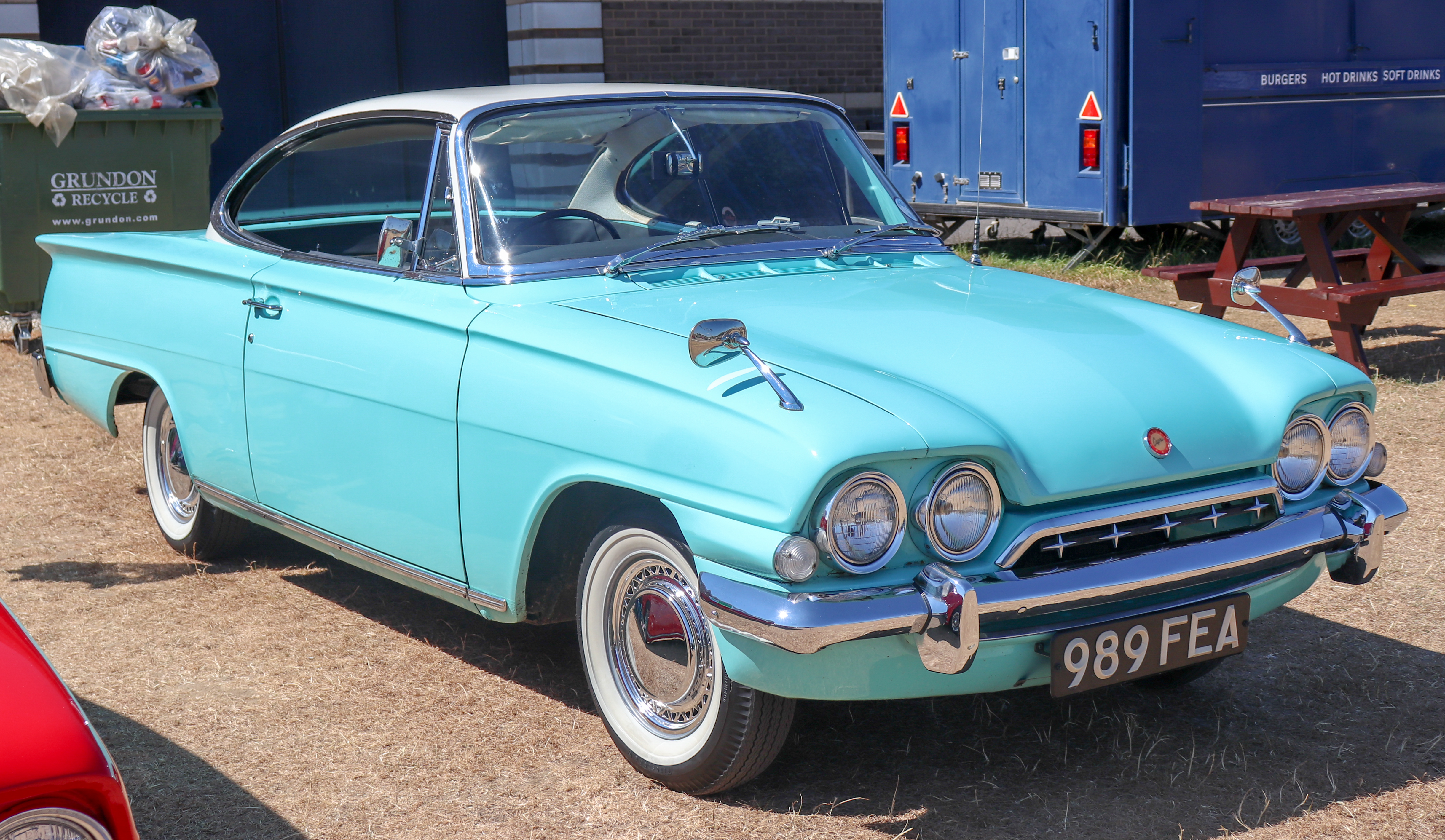 1962 Ford Consul Capri 1.3 Front Taken at the British Motor Museum Old Ford Rally 2018, Gaydon